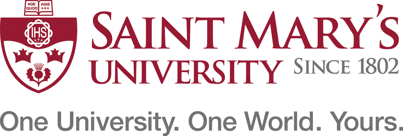 Logo of the Saint Mary's University in Halifax.